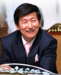 Joshua Jung Myung Seok taken by members of Providence Church, the international Organization he founded.